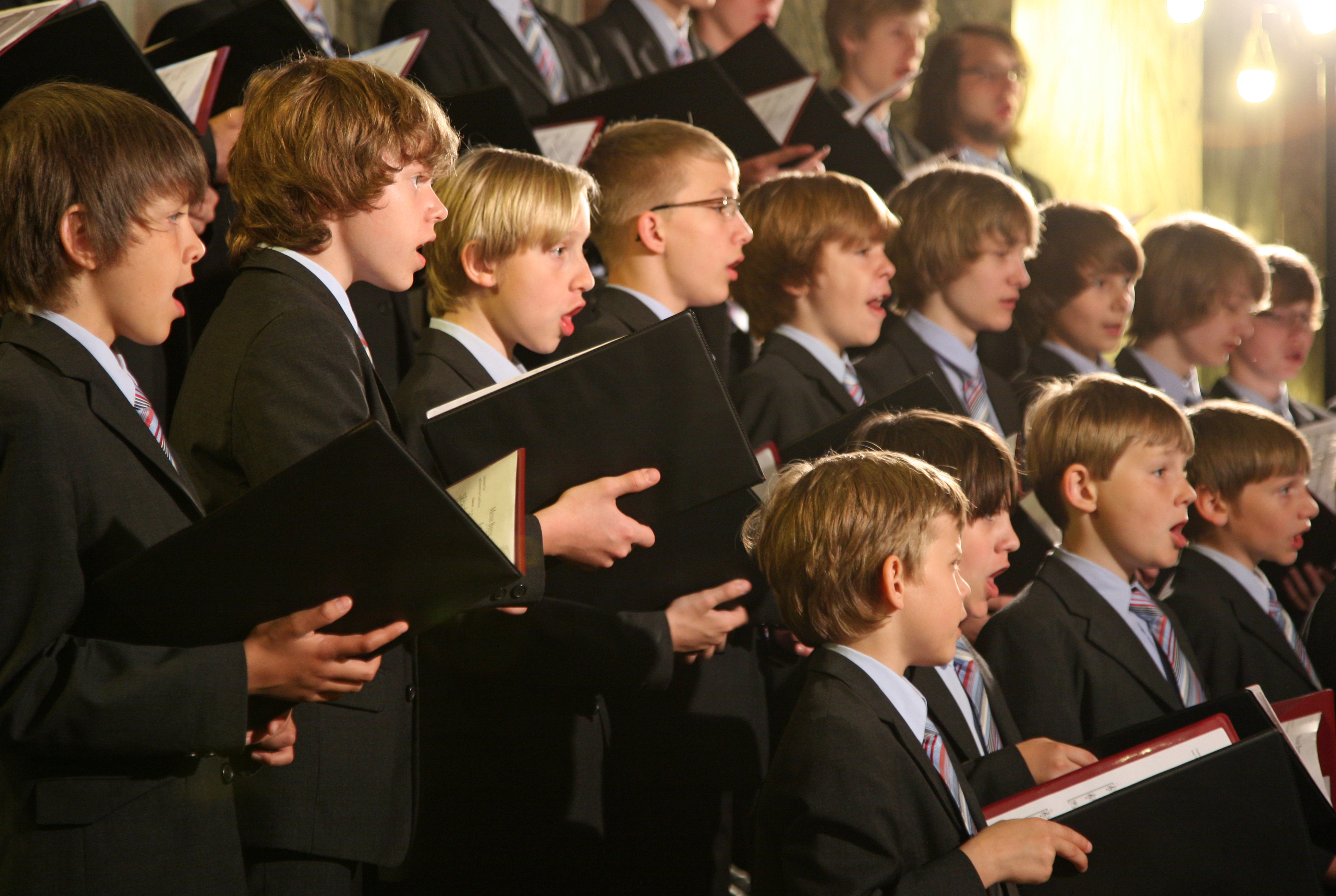 Knabenchor Hoesel Boys Choir permorming in Aachener Dom on May 15th, 2011